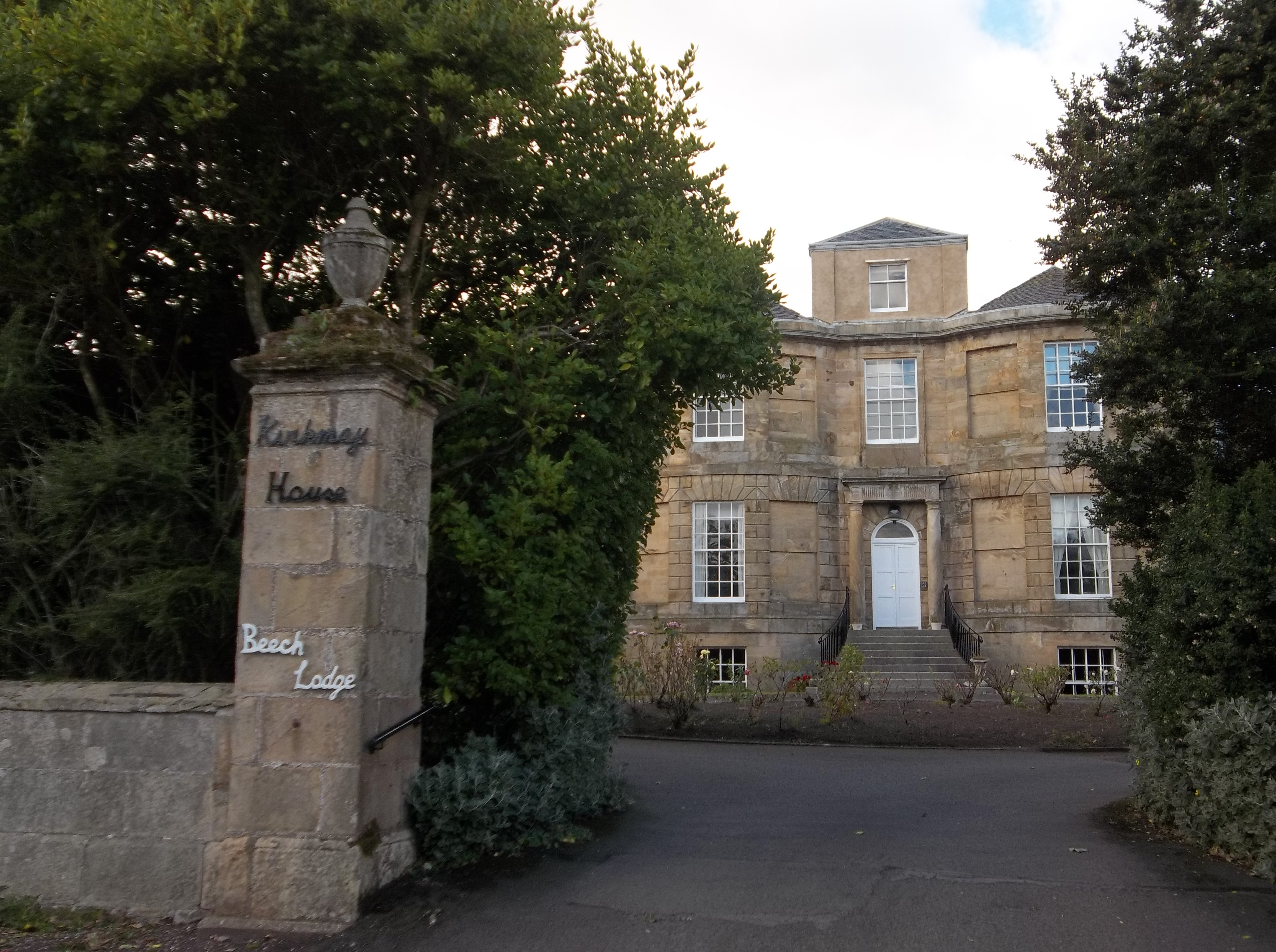 Kirkmay House Hotel